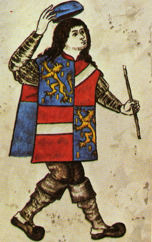 Herald of Nassau-Vianden from the late fifteenth century.